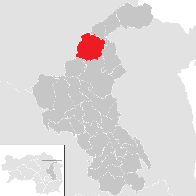 district Weiz